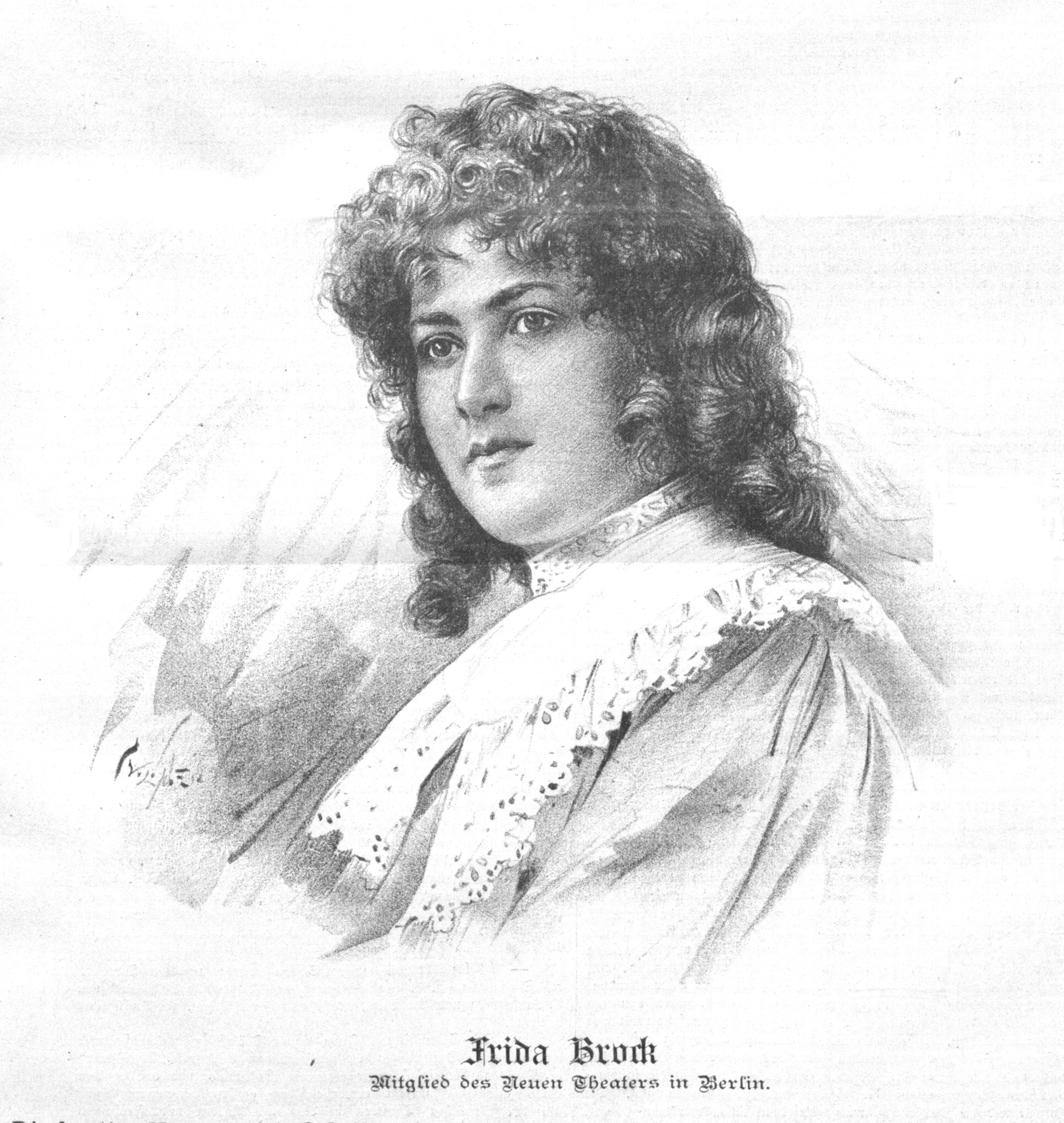 Portrait of Frieda Brock (1873-1943), German actress.